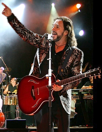 adjusted version of Image:MarcoAntonioSolisCollage-1-1000.jpg